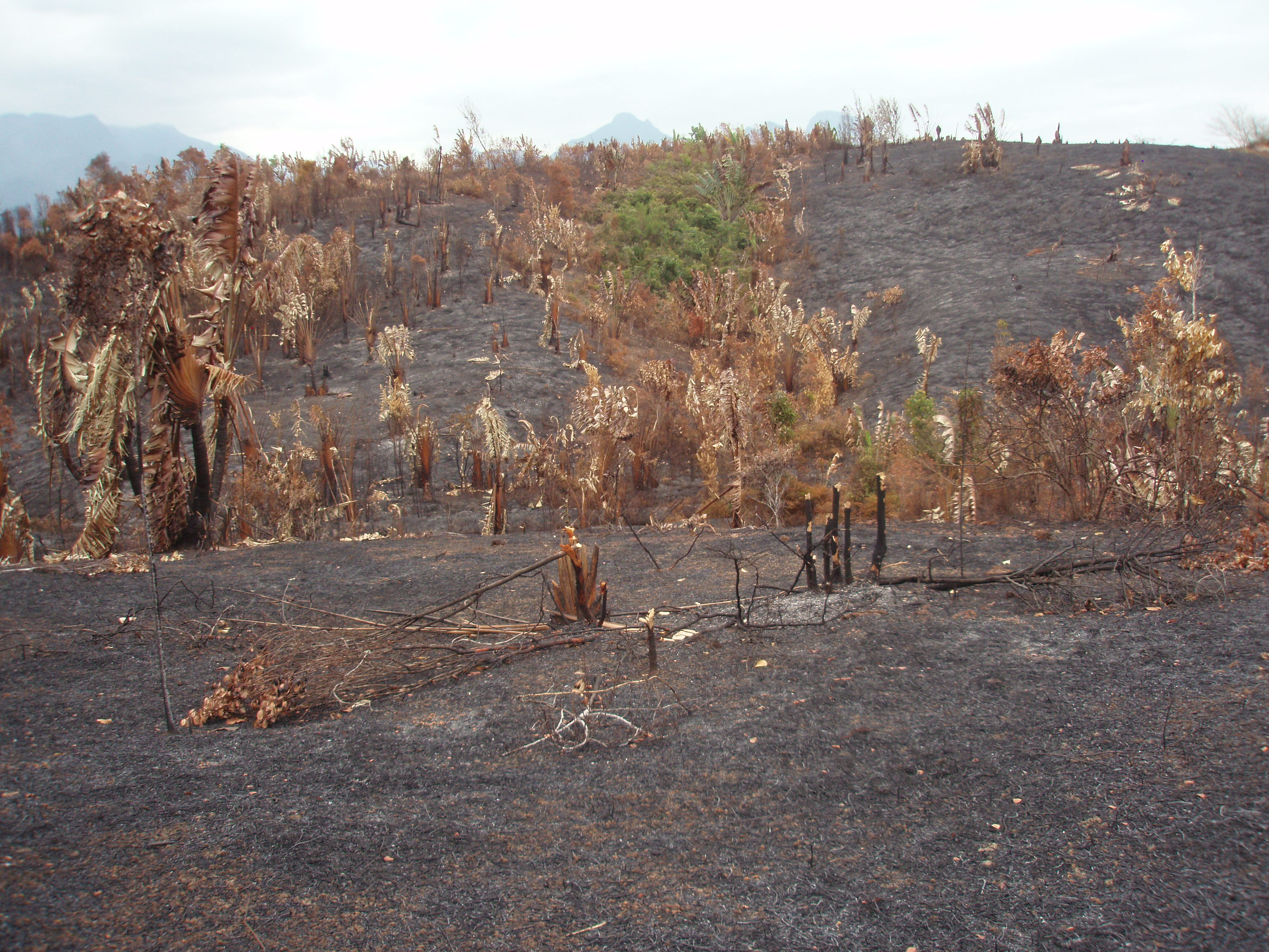 Slash and burn practise near Ambalapaiso, SE Madagascar, region Anosy